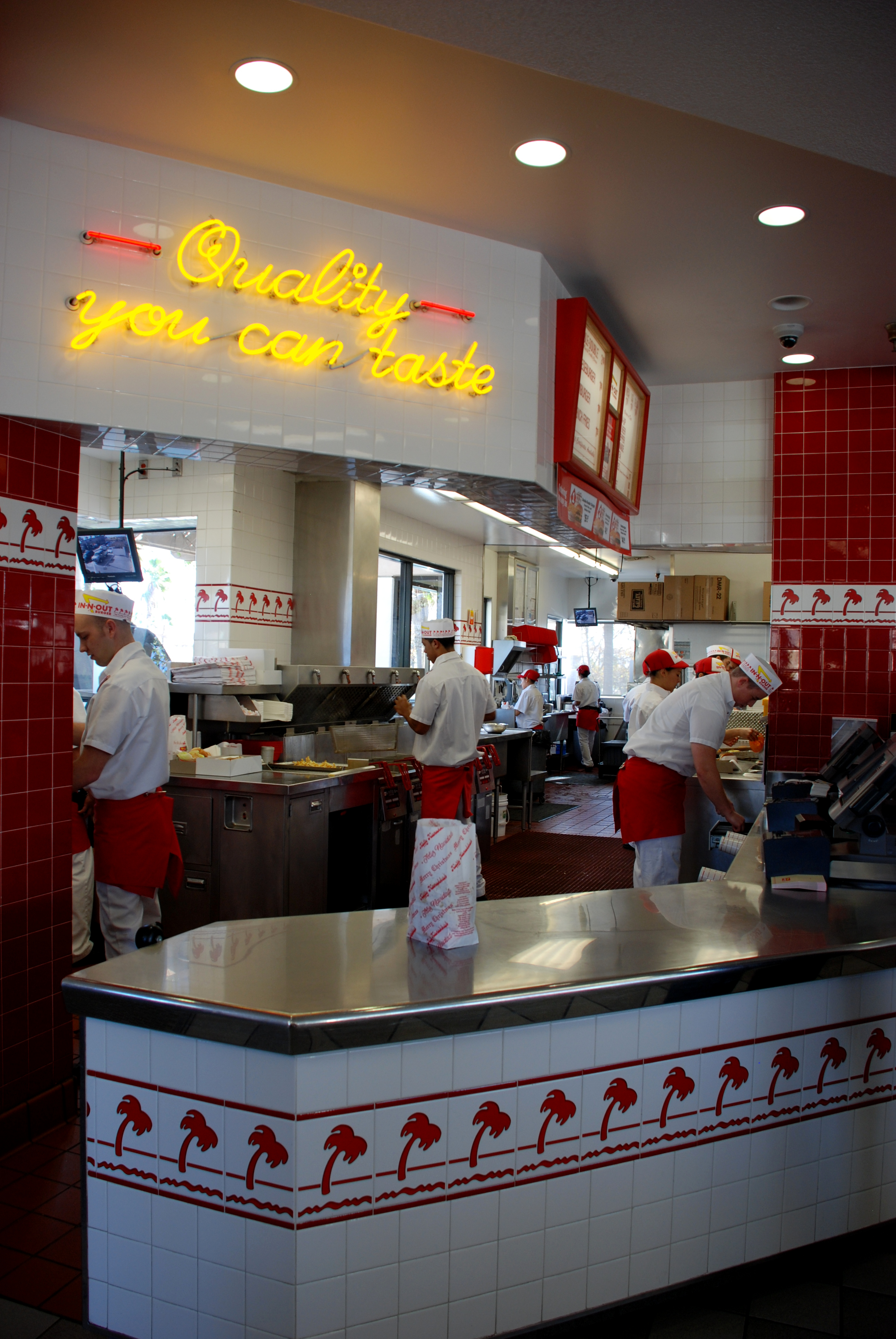 In-N-Out Burger interior neon sign in yellow that reads “Quality you can taste”, a sack of food on a counter below it, and the kitchen in the background; located in Rancho Cucamonga, California, USA.